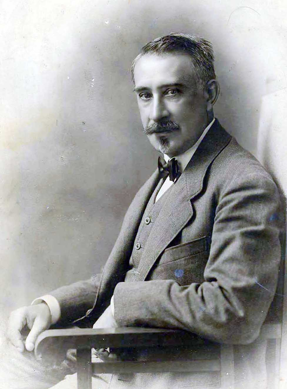 Georgian realist painter George "Gigo" Gabashvili, c. early 1900s